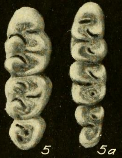 Upper (left) and lower (right) toothrow of Oryzomys bombycinus bombycinus (now Transandinomys bolivaris). This is specimen USNM 171103, an adult female from Cerro Azul, Panama.